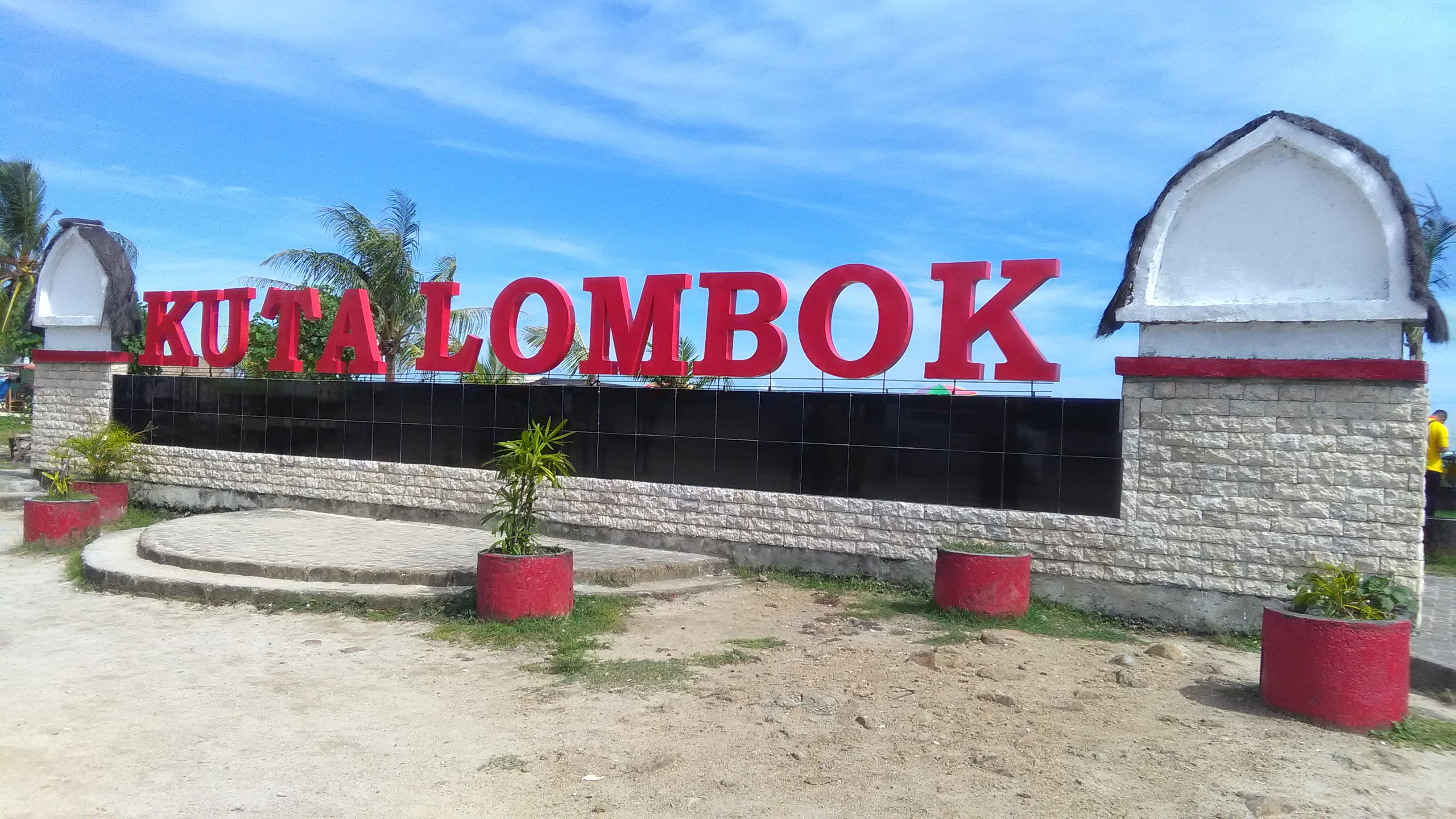 Kuta, Lombok